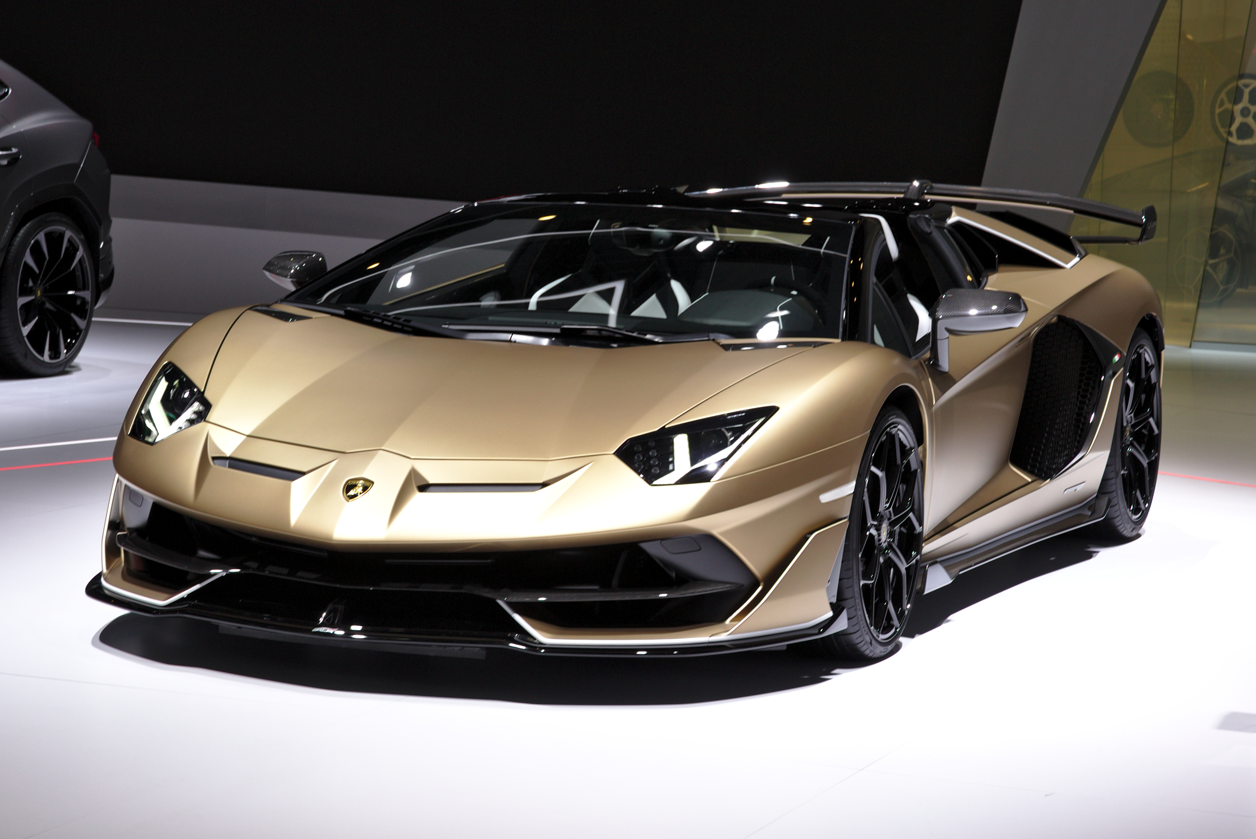 Lamborghini Aventador SVJ Roadster at Geneva Motor Show 2019